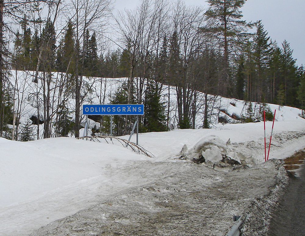 The cultivation border of Swedish Lapland, marked in Strömnäs village by lake Malgomaj in Vilhemina municipality.